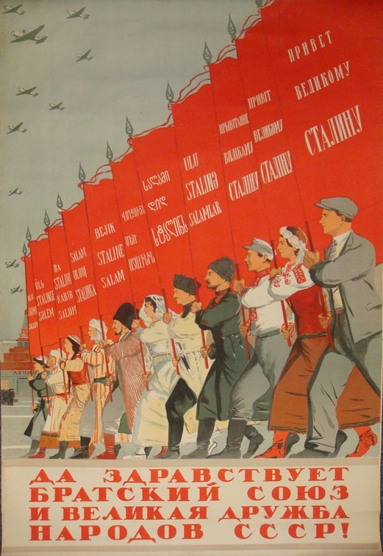 A poster celebrating the unity of the republics under Stalin. The writing on the flag reads "Thank you, great comrade Stalin!"